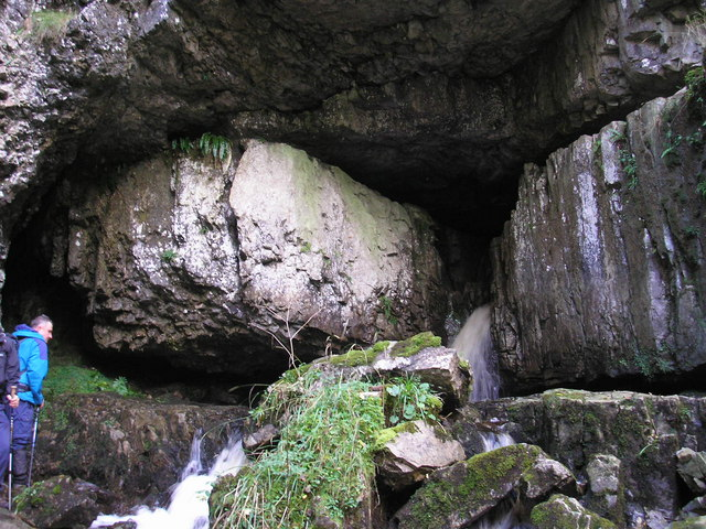 Great Douk Cave The emerging stream soon disappears amongst stones. The cave is surrounded by trees in a huge hole in the moor. Access into the cave is either via the waterfall or along the cleft at the top right.